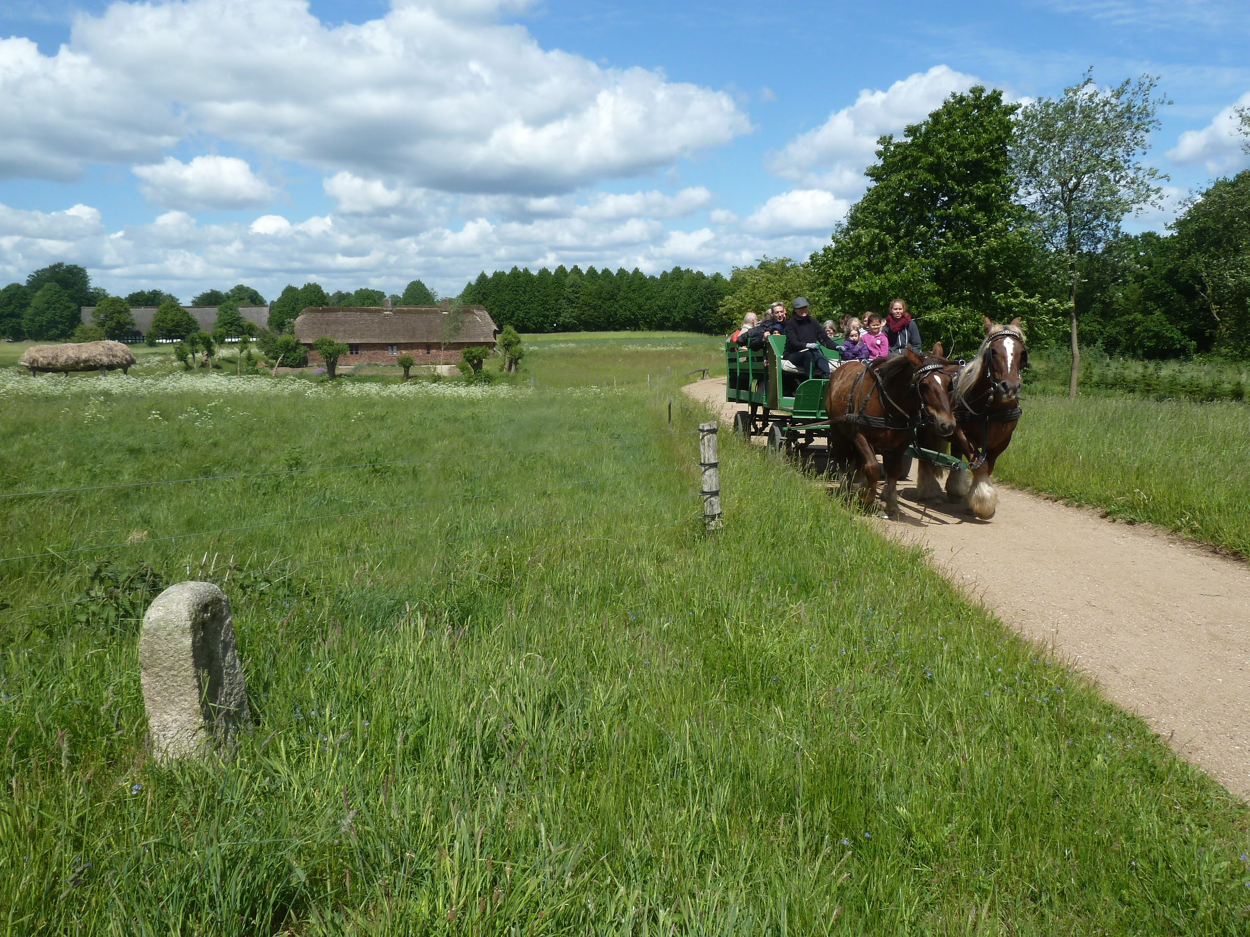 Mile stone from Holstebro and carriage on Frilandsmuseet (the open air museum) north of Copenhagen.